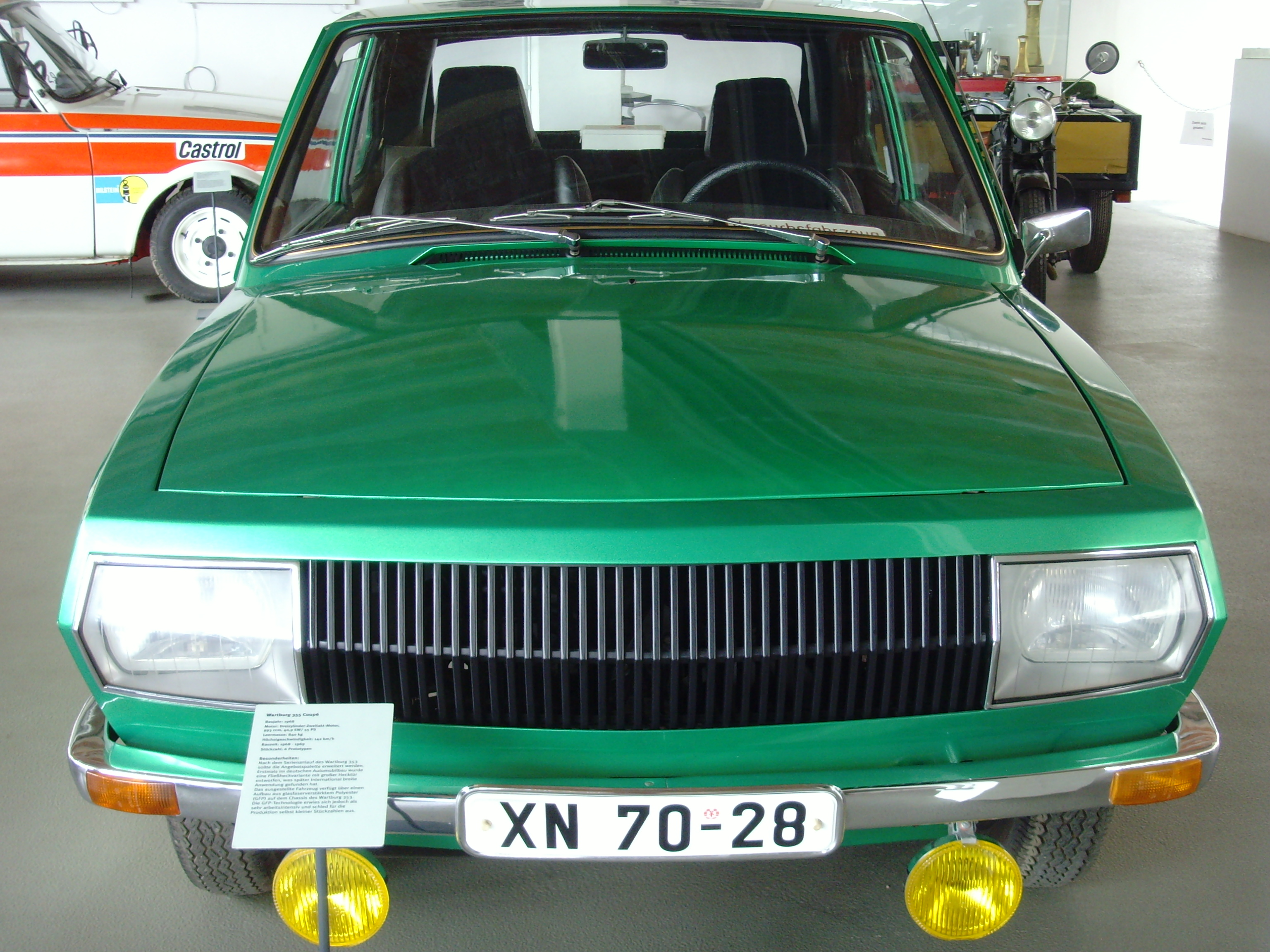 Wartburg 355 Coupe Prototyp 1968